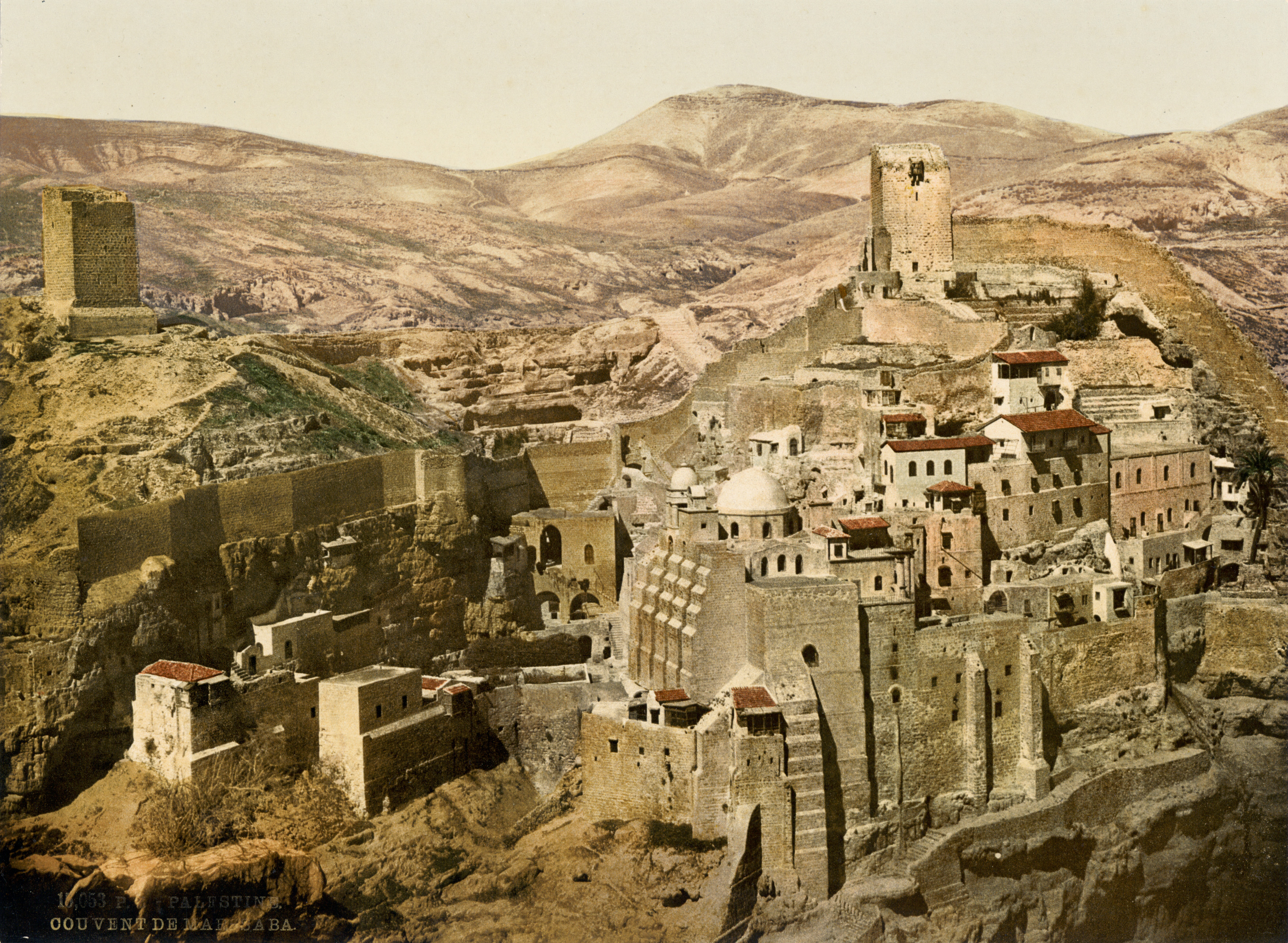 The convent, Mar-Saba, West Bank, Palestine